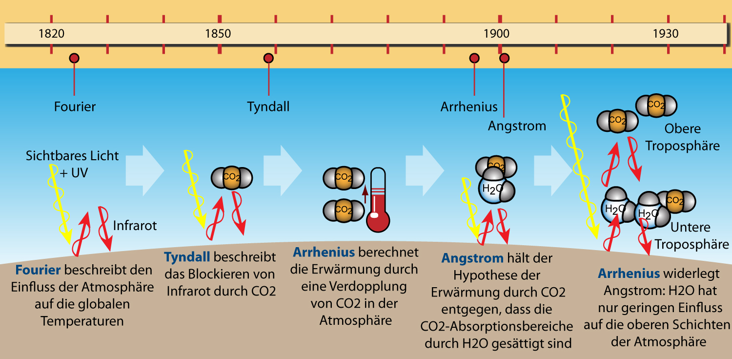 Science timeline, 1820-1930